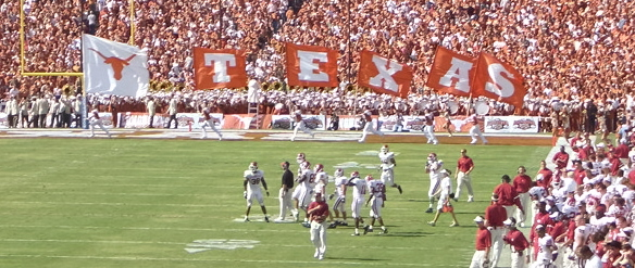 Finally a reason for Longhorn fans to smile on the second Saturday of October!